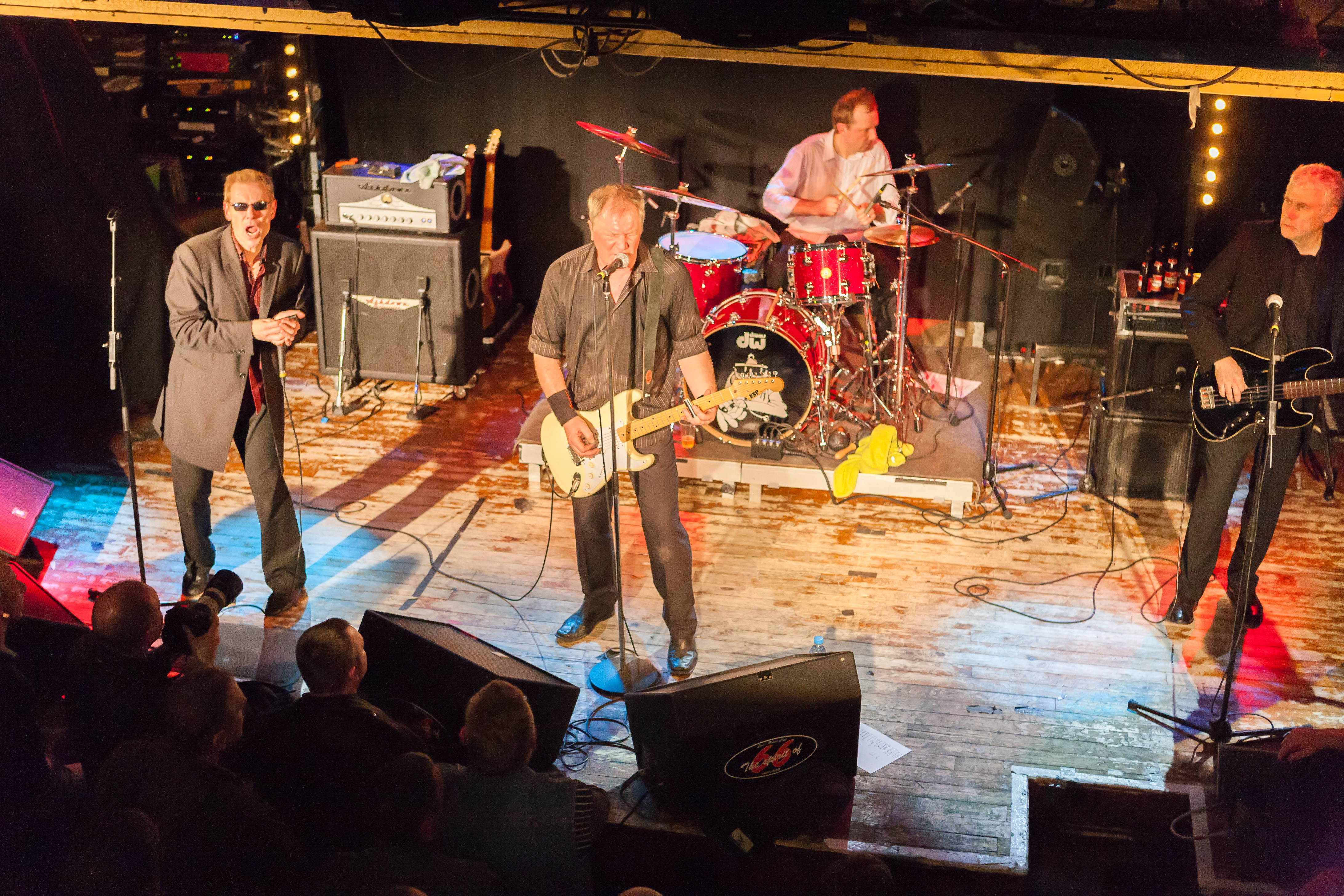 The British pub rock band Dr. Feelgood at music club Spirit of 66, Verviers, Belgium – From left to right: Robert Kane (vocal), Steve Walwyn (guitar), Kevin Morris (drums), Phil Mitchell (bass)